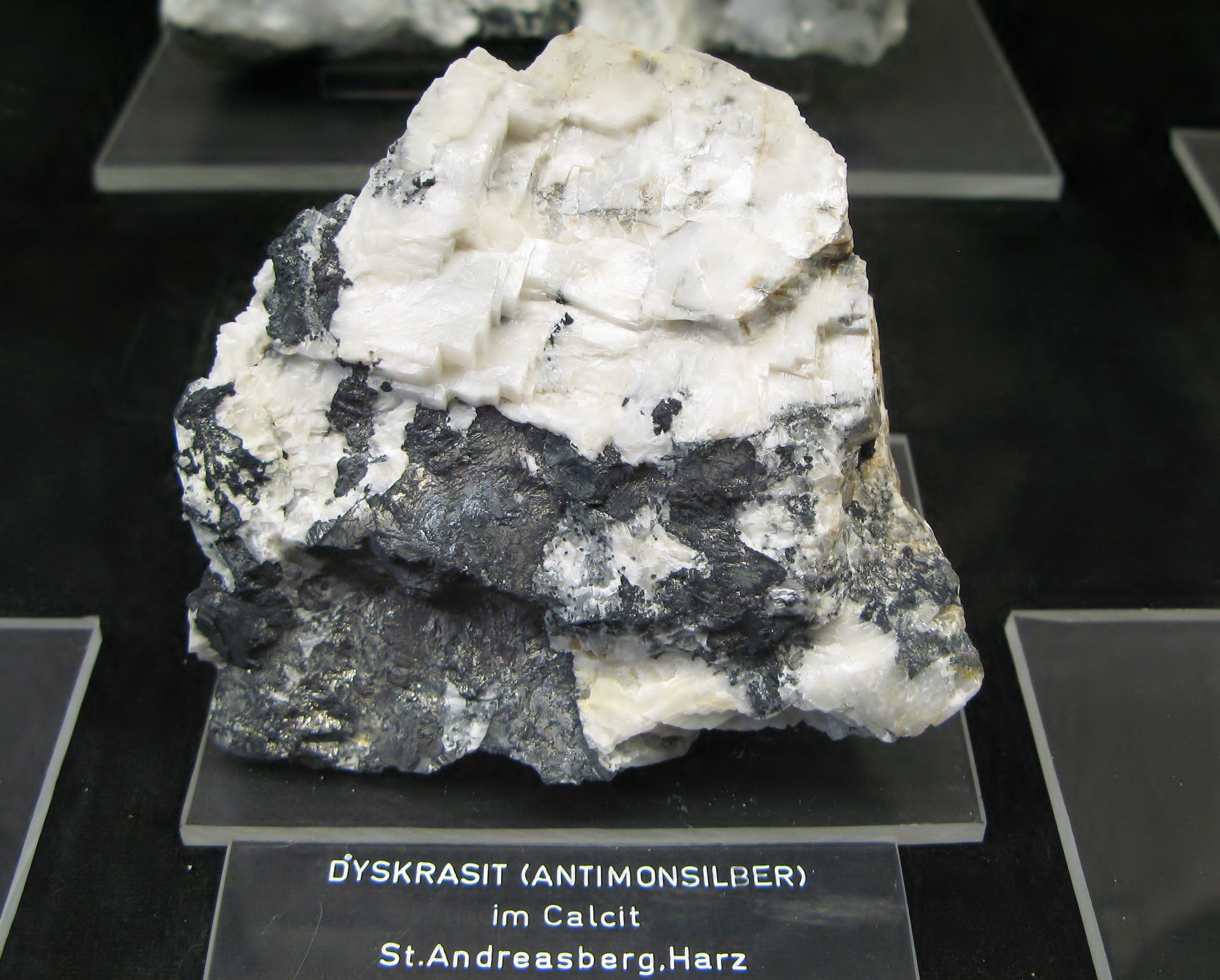 Dyscrasite in Calcite - St. Andreasberg, Harz - Exposed in the Mineralogical Museum, Bonn, Germany